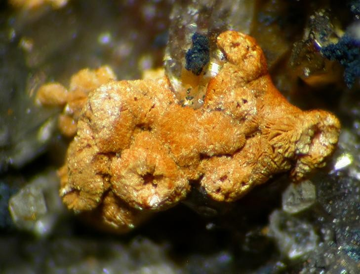 Uranotungstite Locality: Krunkelbach Valley Uranium deposit, Menzenschwand, Black Forest, Baden-Württemberg, Germany Yellow-orange aggregates of uranotungstite (analysed). Field of view 3 mm. Specimen and photo Leon Hupperichs.